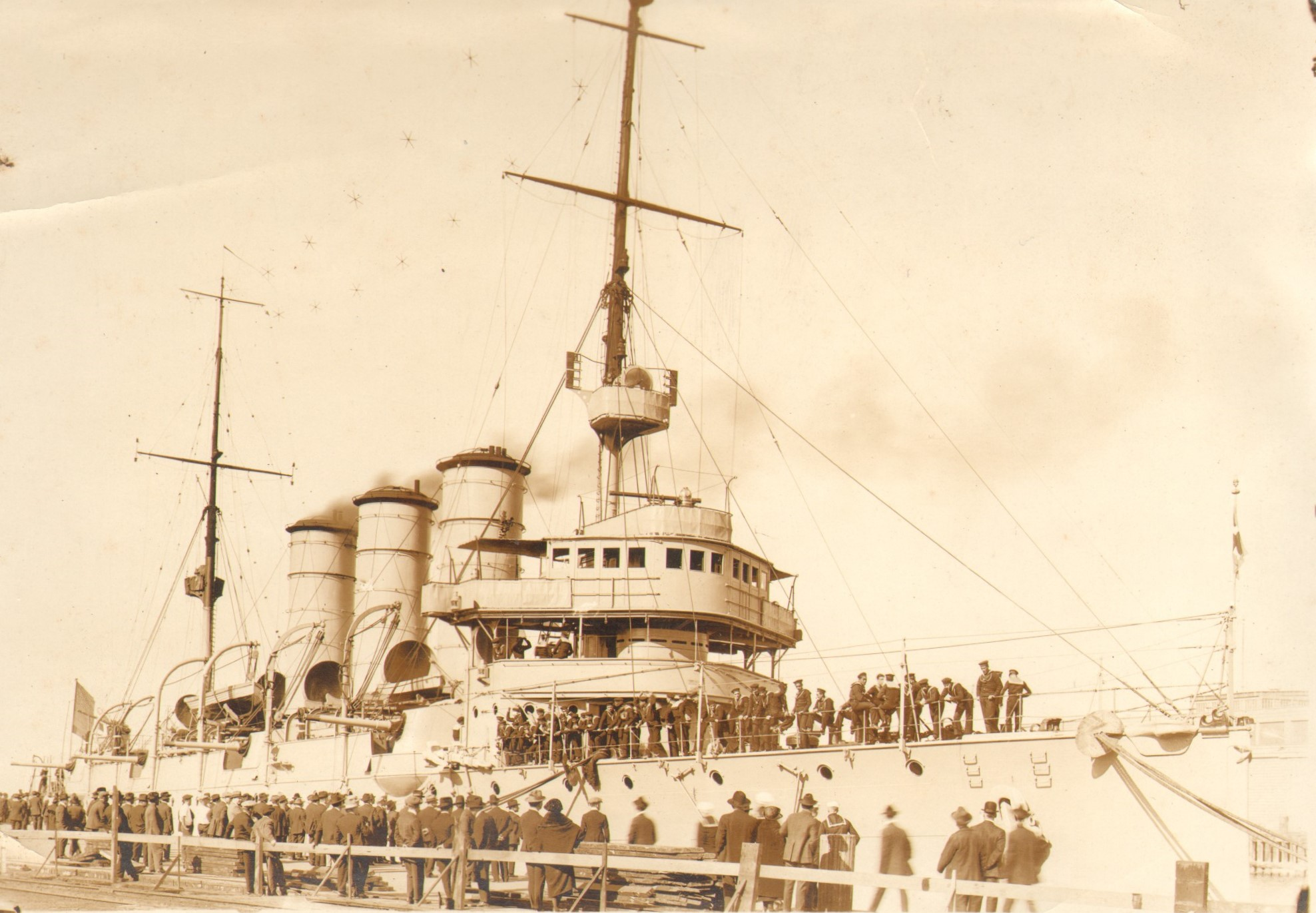 Cruiser Libia. The original picture, scanned by Emiliano Burzagli, belongs to the Private archive of Burzaghi family, Italy.